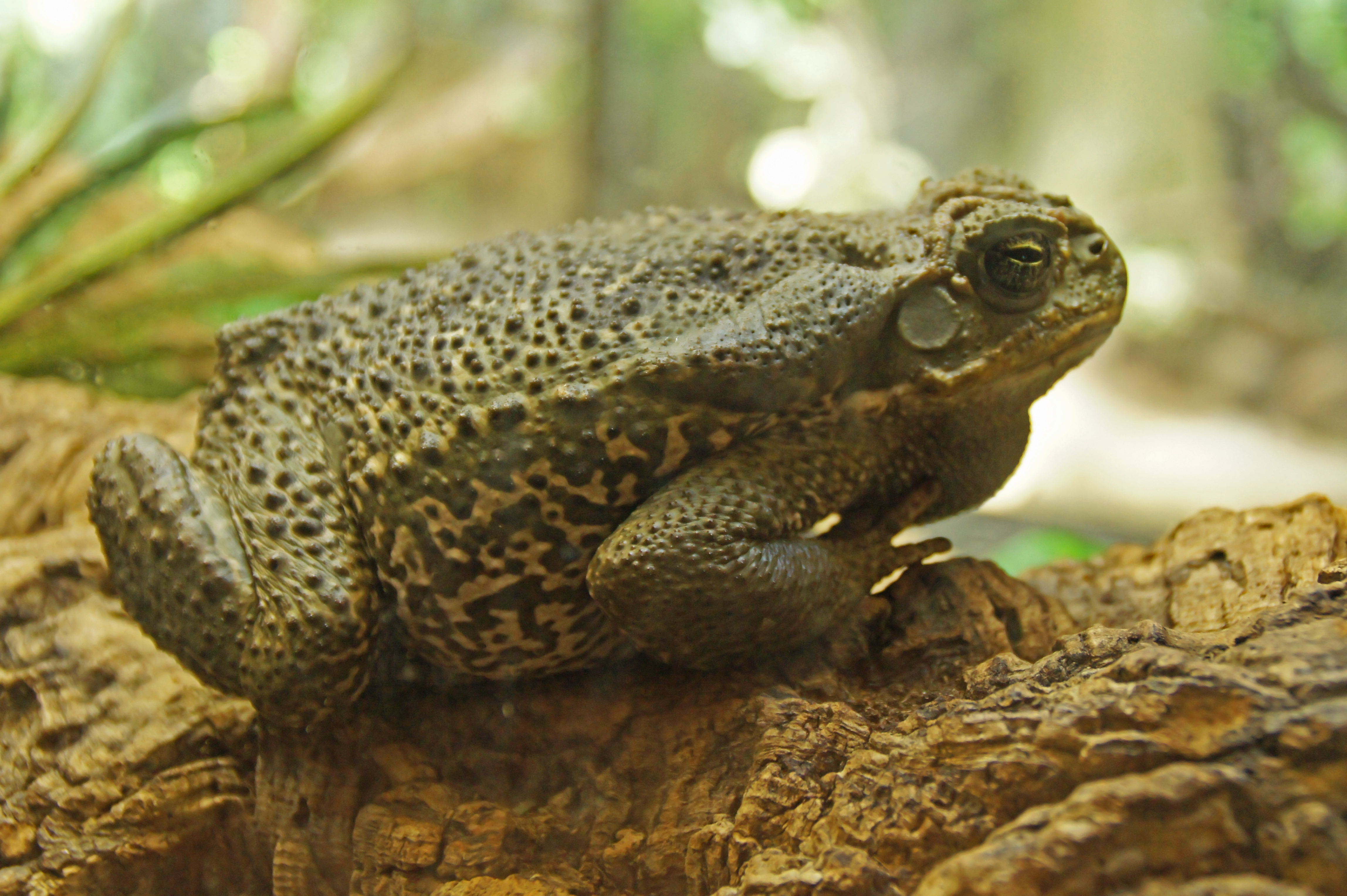 Bufo marinus in Ölands djurpark in Sweden